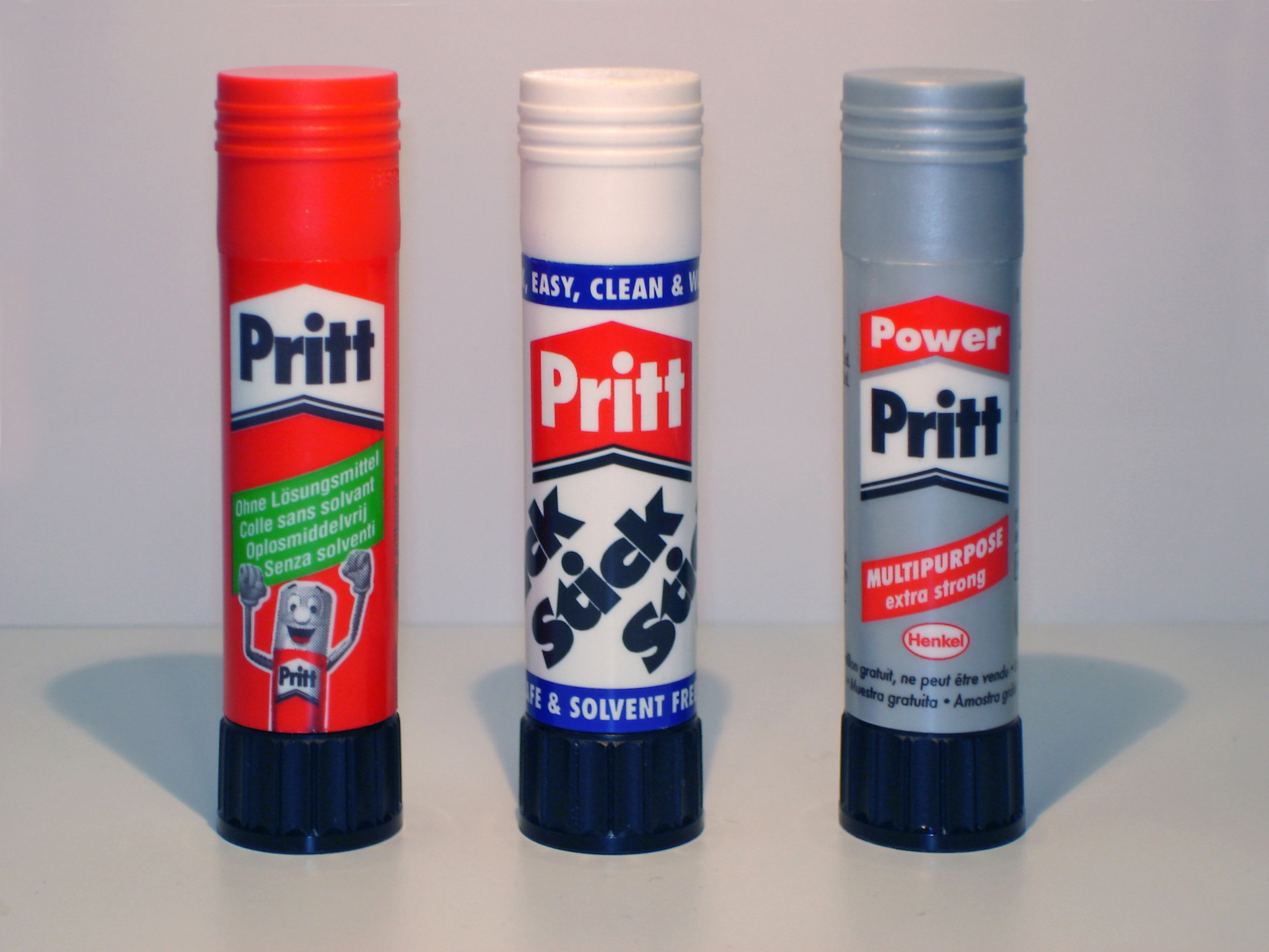 Standard "Pritt Stick (International version), "Pritt Stick (UK version)" and Extra Strong "Power Pritt"